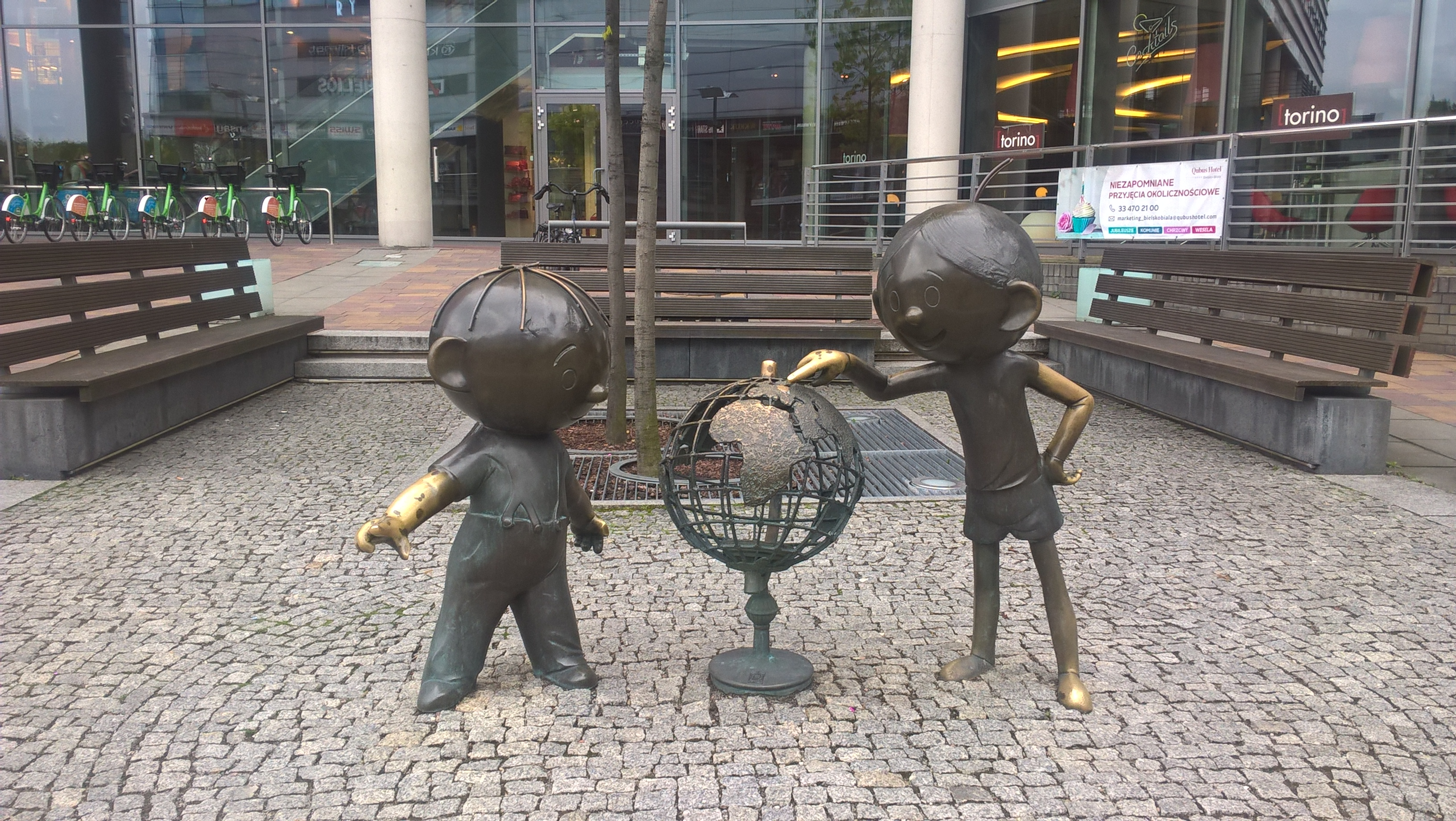 Lolek and Bolek monument in Bielsko-Biala